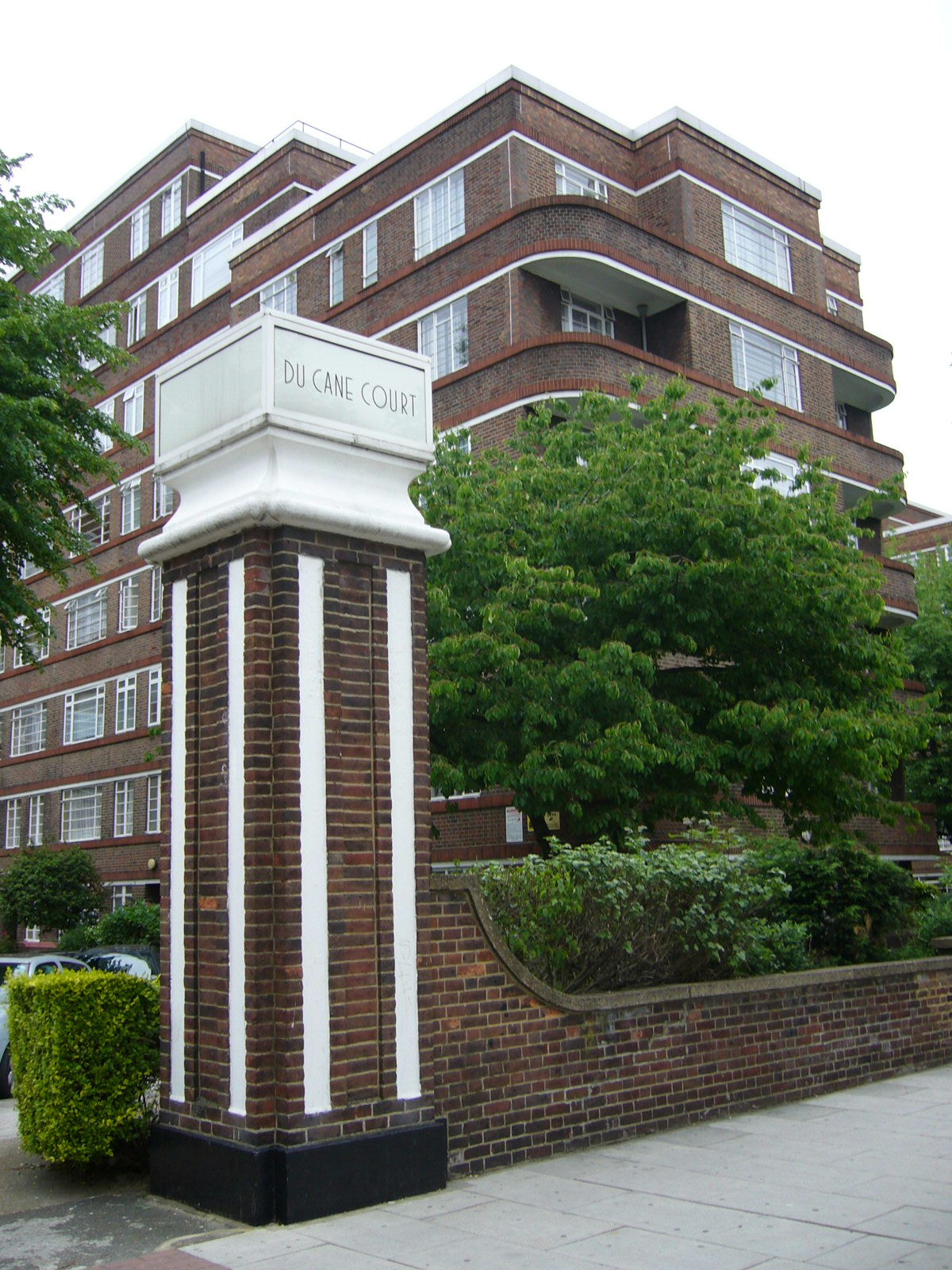 Part of Du Cane Court in Balham High Road, Balham, London.